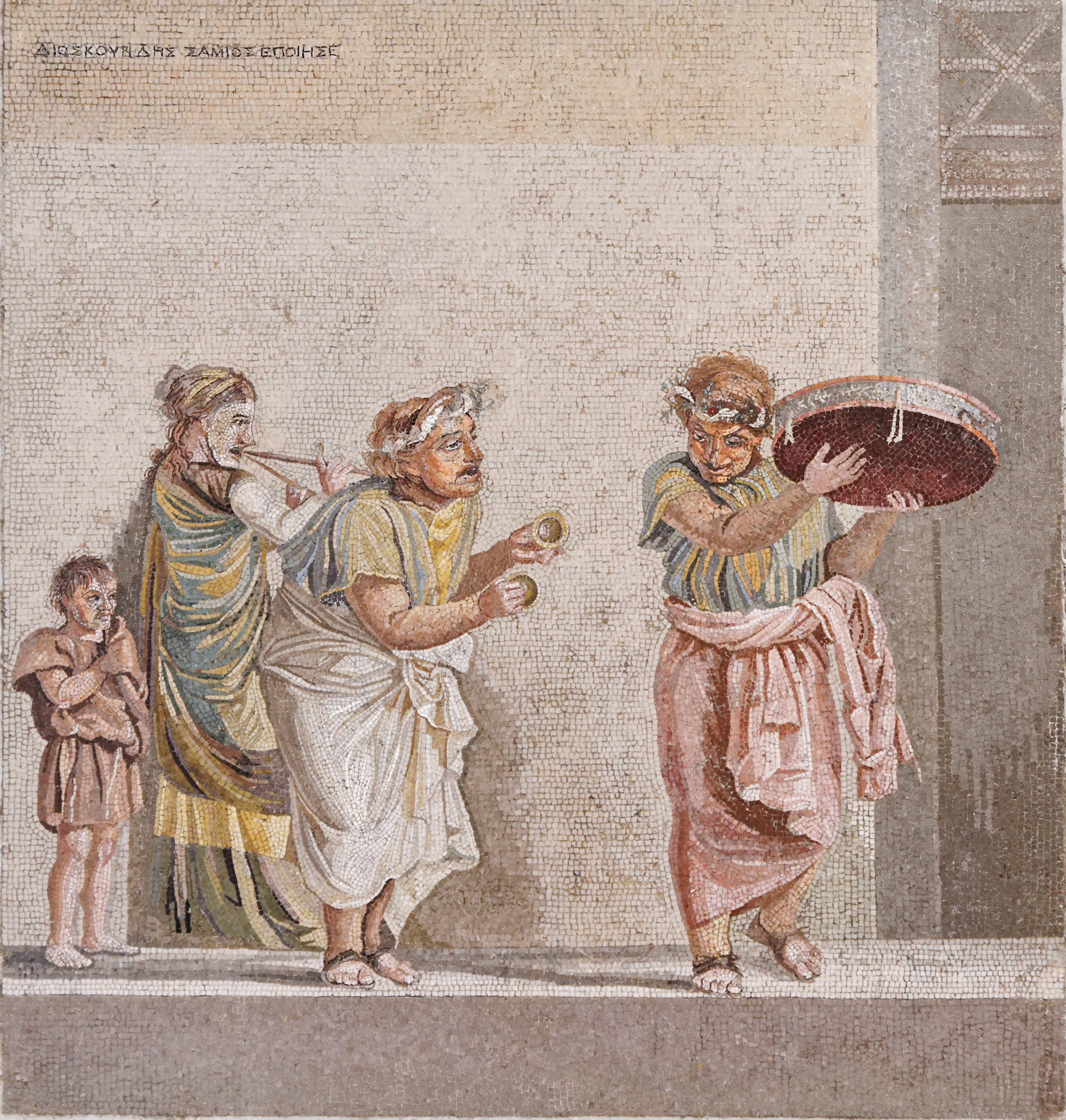 Vagrant musicians, comedic scene, Roman mosaic.